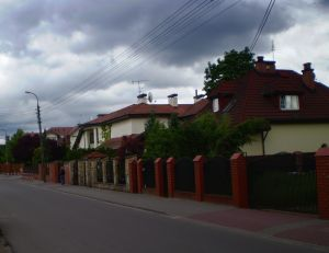 Warsaw - Zacisze Tarnogórska street